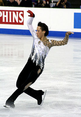 U.S. figure skater Johnny Weir.